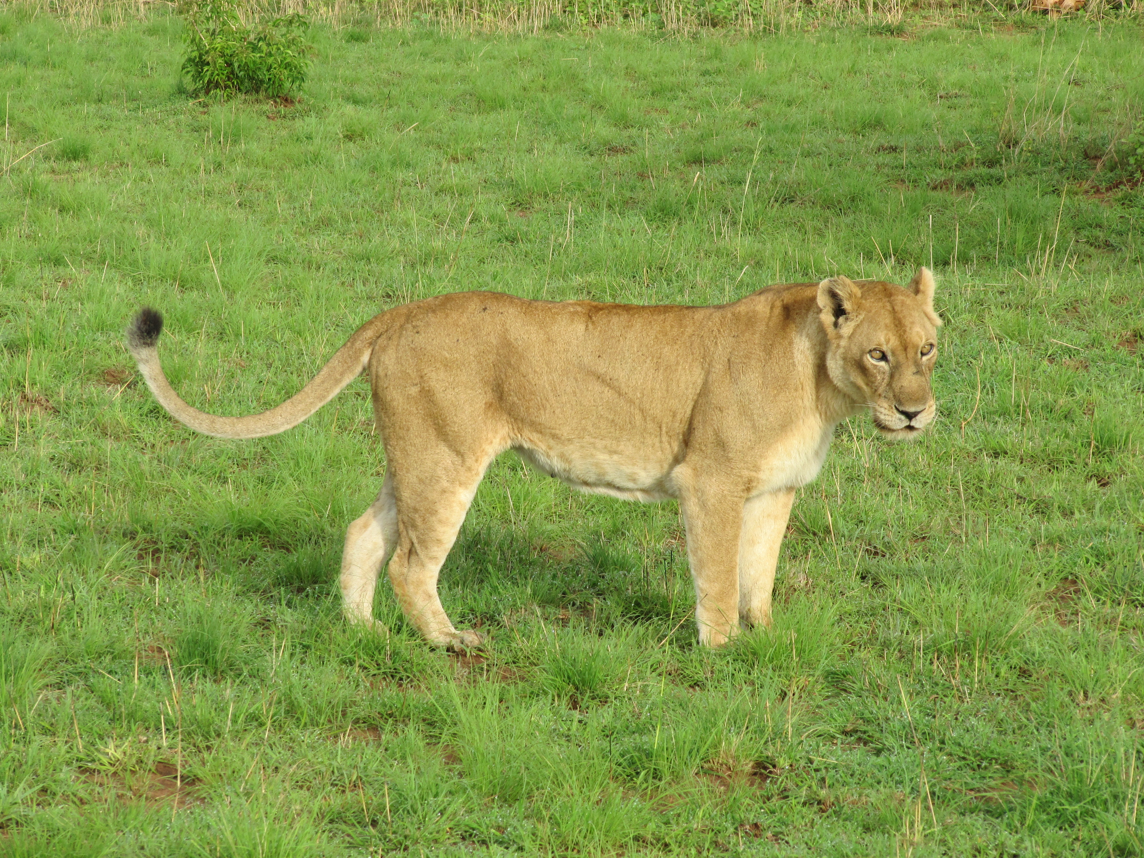 Female Lion in Murchison Falls National Park